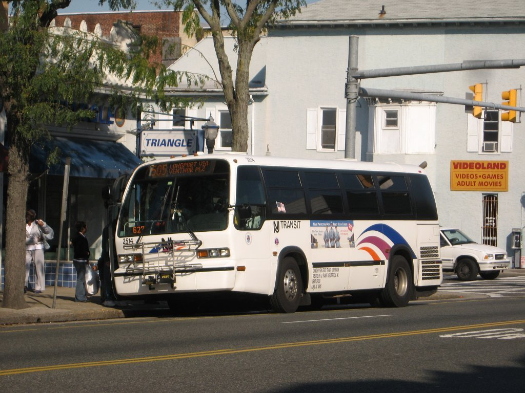 New Jersey Transit #2514 makes a stop along Atlantic Avenue on the 505 line.